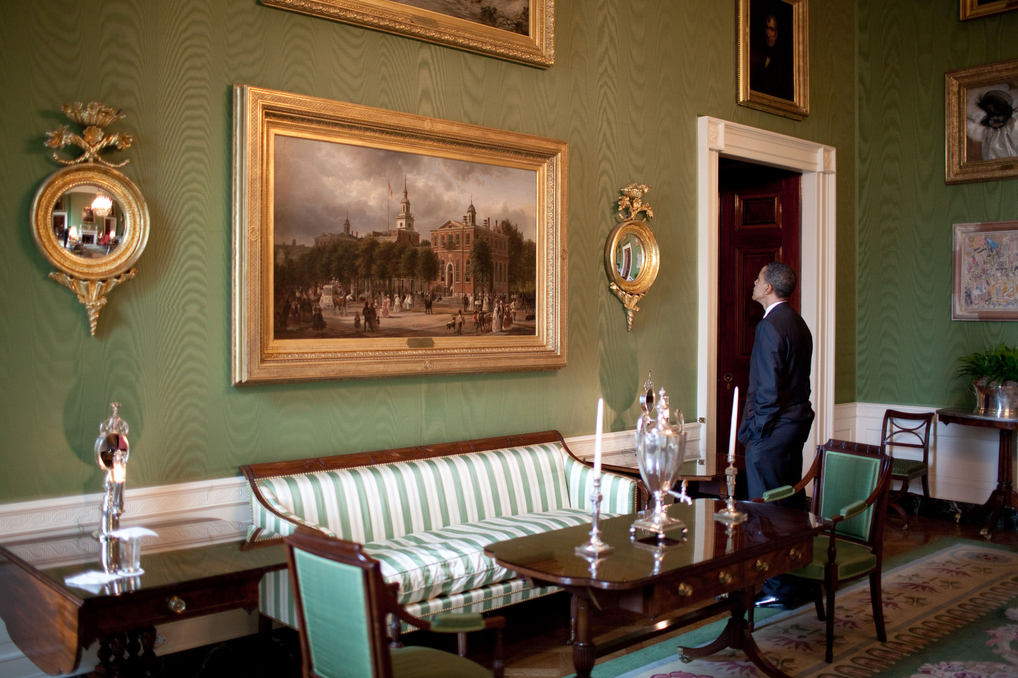 President Barack Obama looks at a mirror in the Green Room of the White House prior to an event with Community Solutions, June 30, 2009. The urn and candlesticks on the coffee table in front of the Duncan Phyfe striped sofa are part of the silver pieces from John & Abigail Adams.